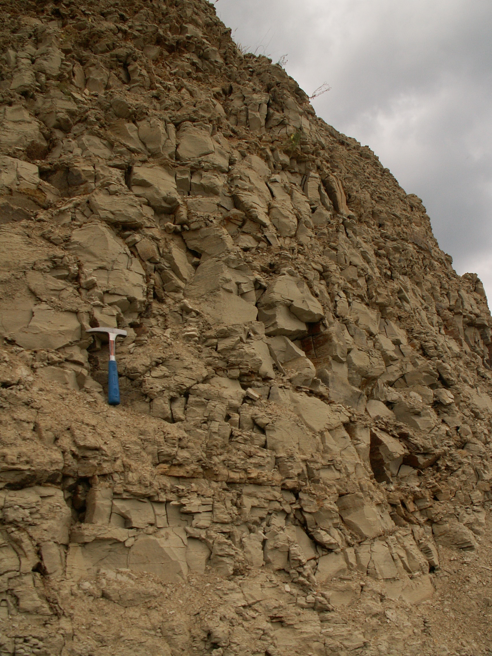 Sandy marlstones / Sandy calcareous claystones, Neogene (Miocene), Cerová Lieskové, Vienna Basin, Western Slovakia